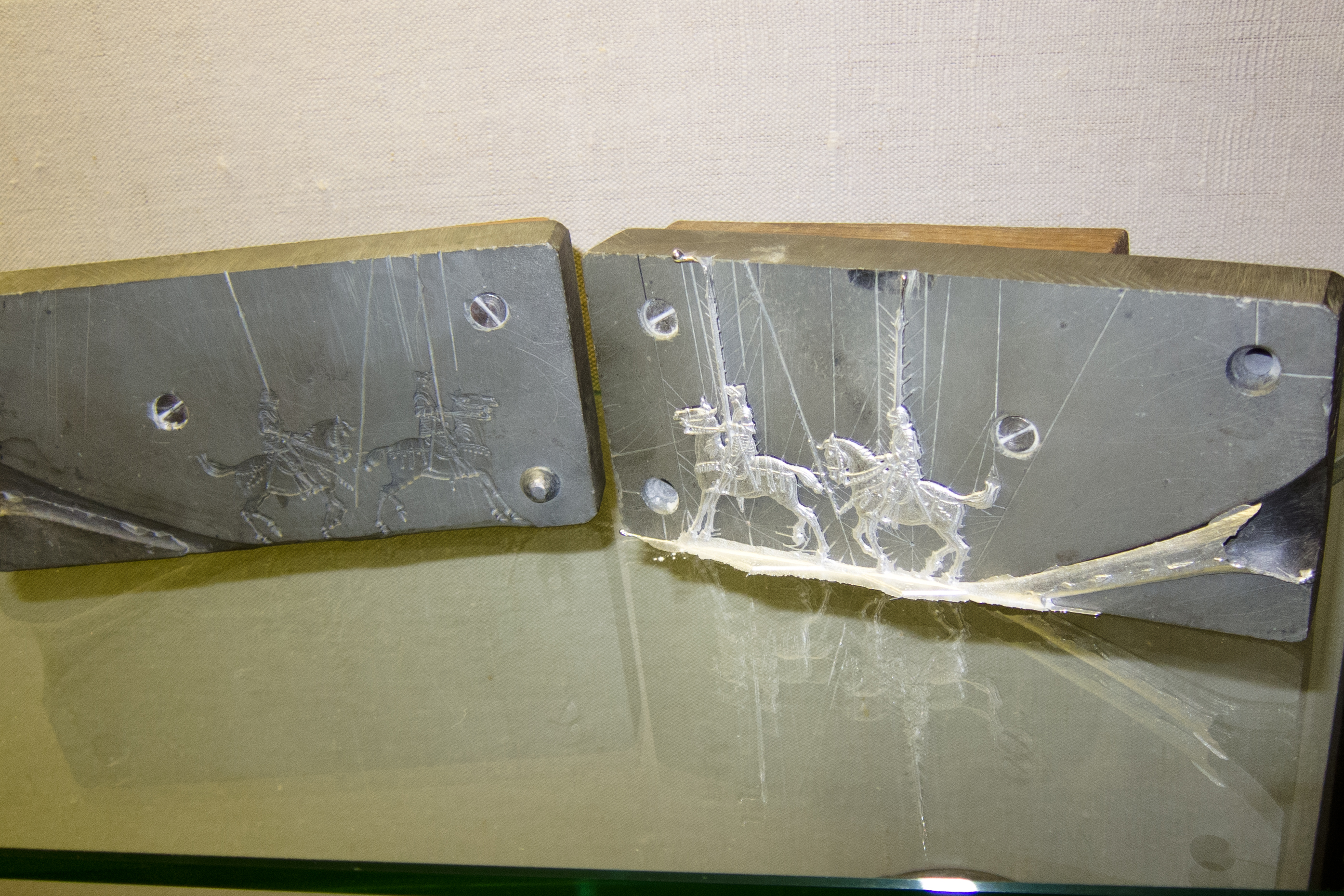 There are more than 300,000 hand-painted tin soldiers in the Plassenburg Zinnfiguren Museum in the Plassenburg Castle near Kulmbach, Germany 2012